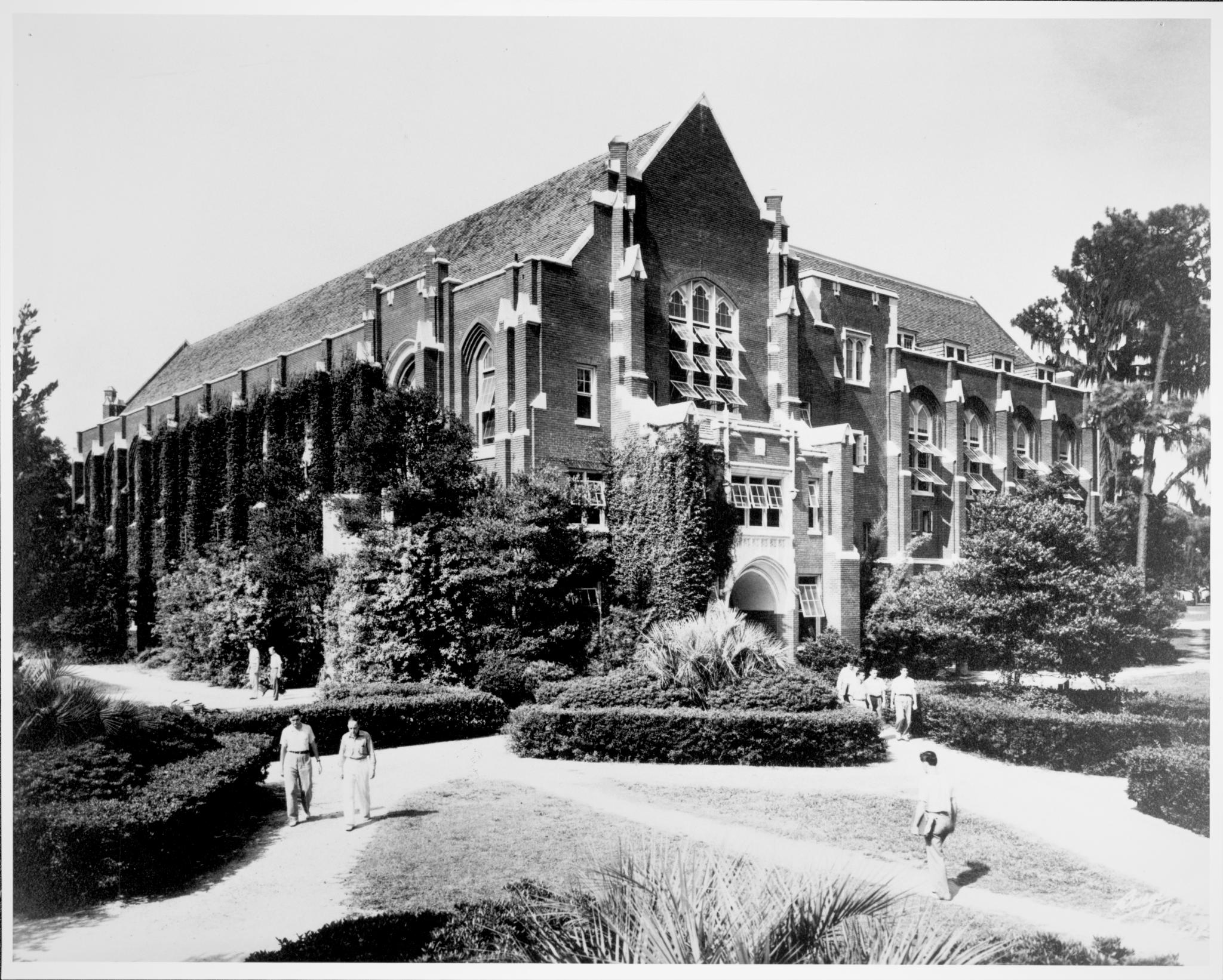 A historic photo of Smathers Library